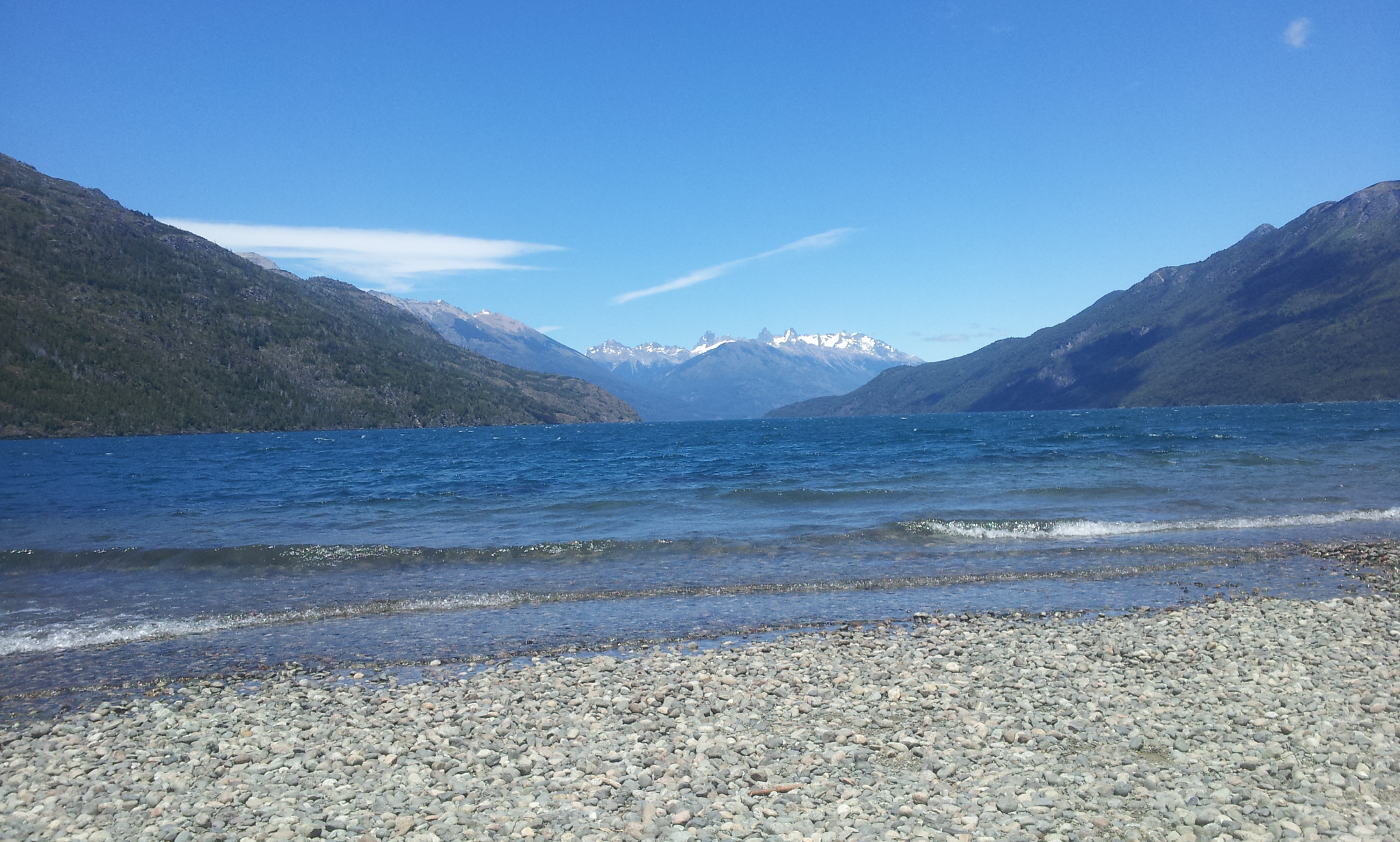 Vista del Lago Puelo, Chubut.